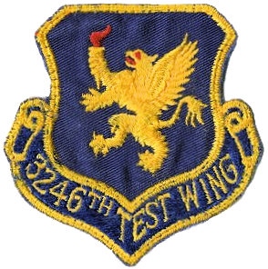 3246th Test Wing (USAF Air Force Systems Command)